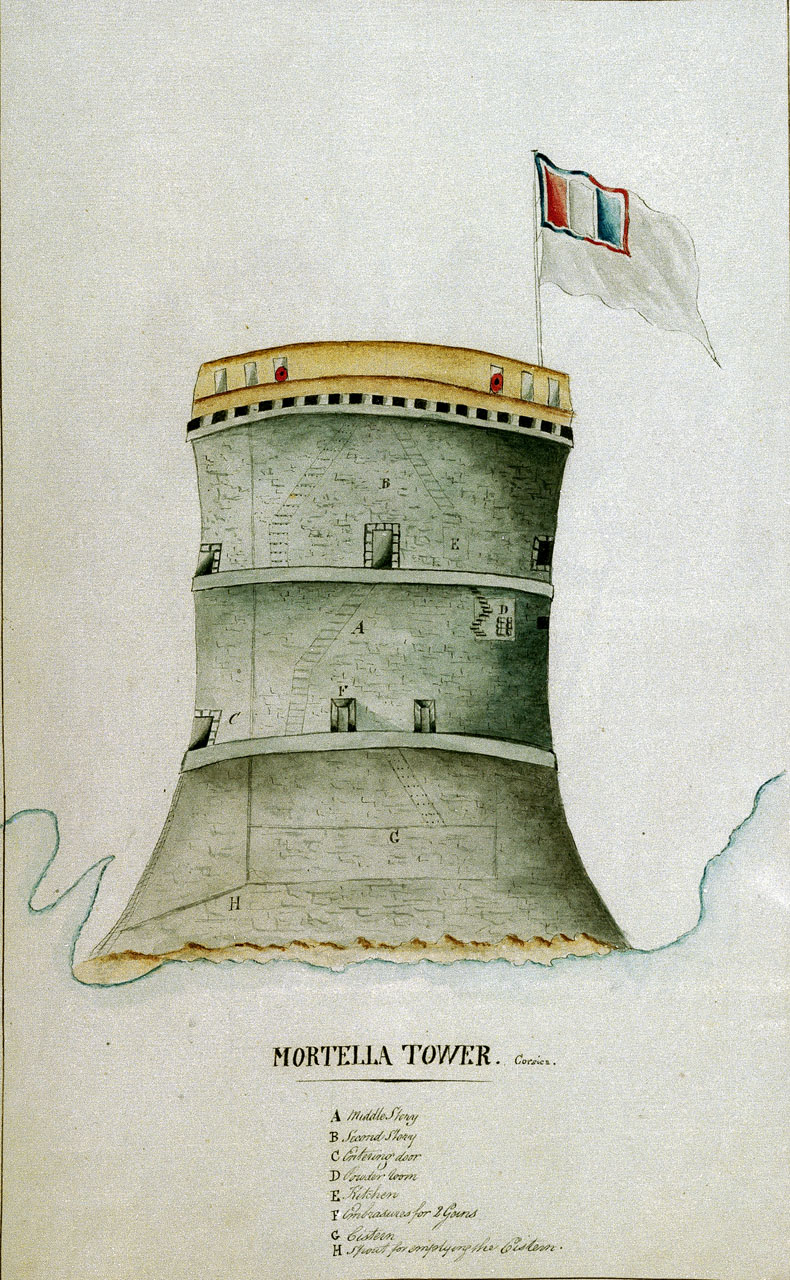 The Tour de Mortella is a Genoese tower on the west coast of the French island of Corsica. It is located near the Punta Mortella (Myrtle Point) in the commune of Saint-Florent. The tower served as an inspiration for the numerous Martello towers built by the British in the first half of the 19th century. The artist 'DCF' has not been identified. He was probably an army officer of the British force under General David Dundas that captured the tower in February 1794.